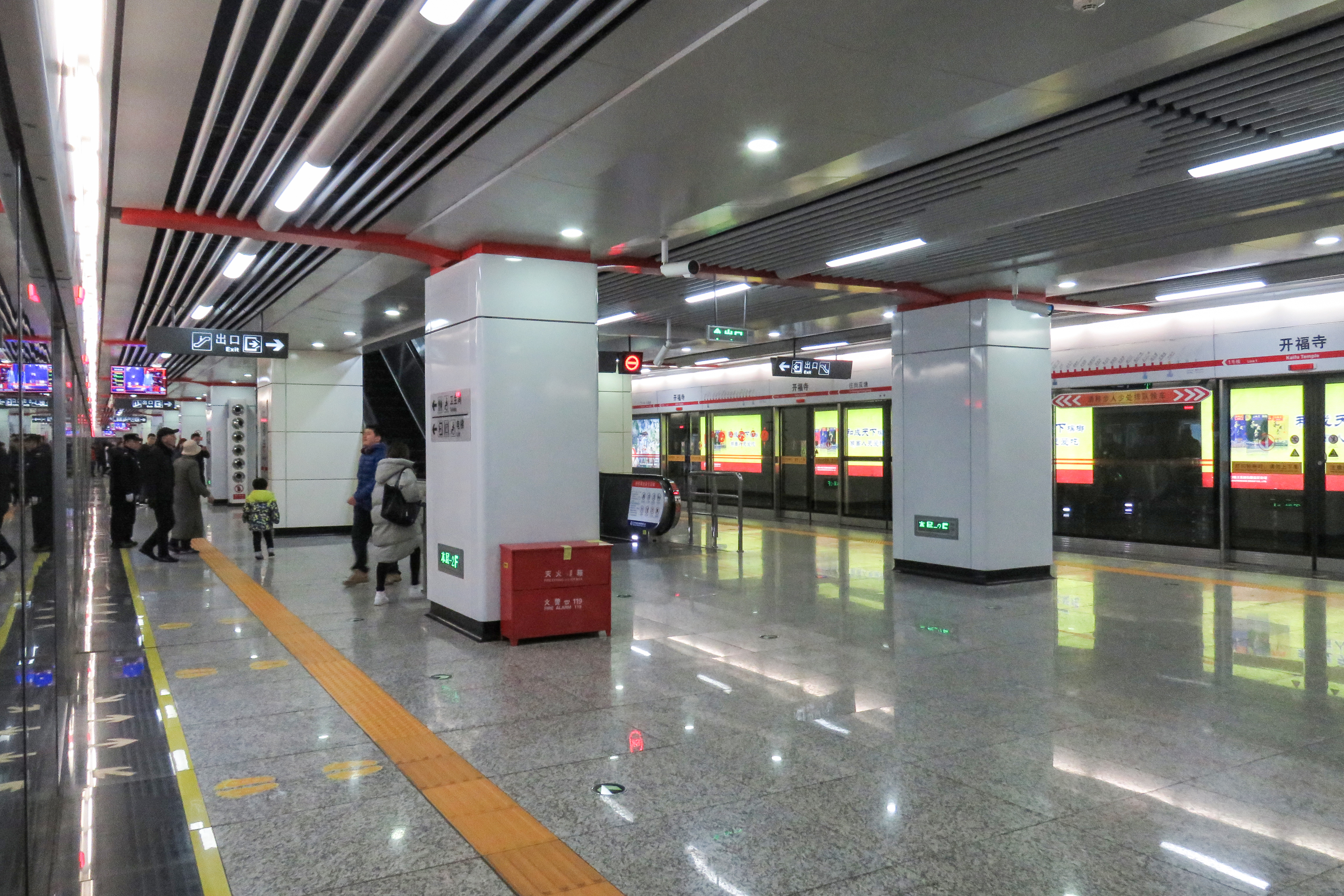 You've put up "No Photo" signs? Forget it! Focus on areca catechu residues instead!